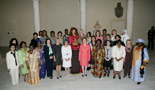 Mrs. Laura Bush, center in salmon-colored suit, hosts 36 other first ladies from around the world at the White House Symposium on Advancing Global Literacy at the Metropolitan Museum of Art in New York City, Sept. 22, 2008. The first ladies were in New York City while their spouses attend the United Nations General Assembly.